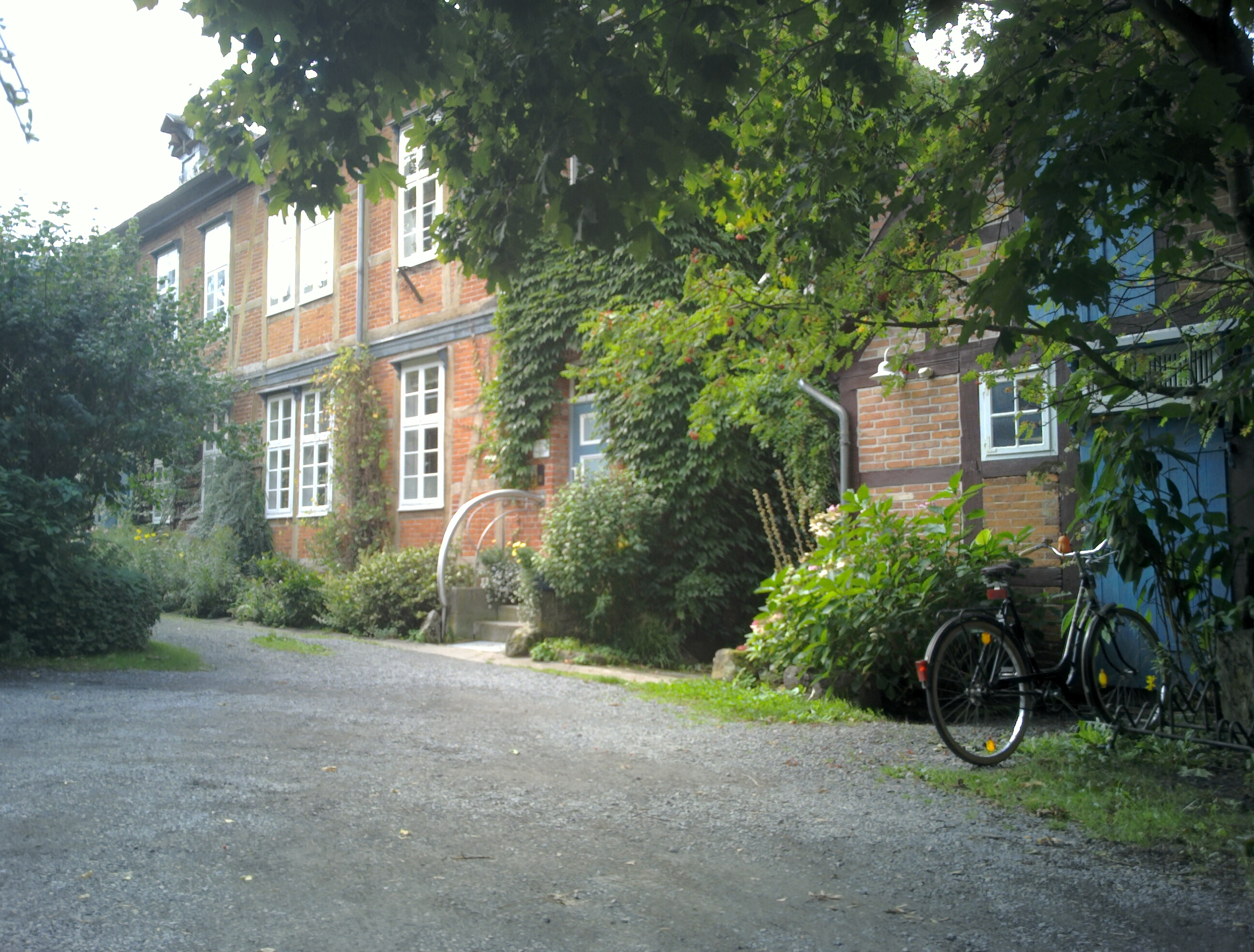 Former courthouse Wennigsen (Deister)